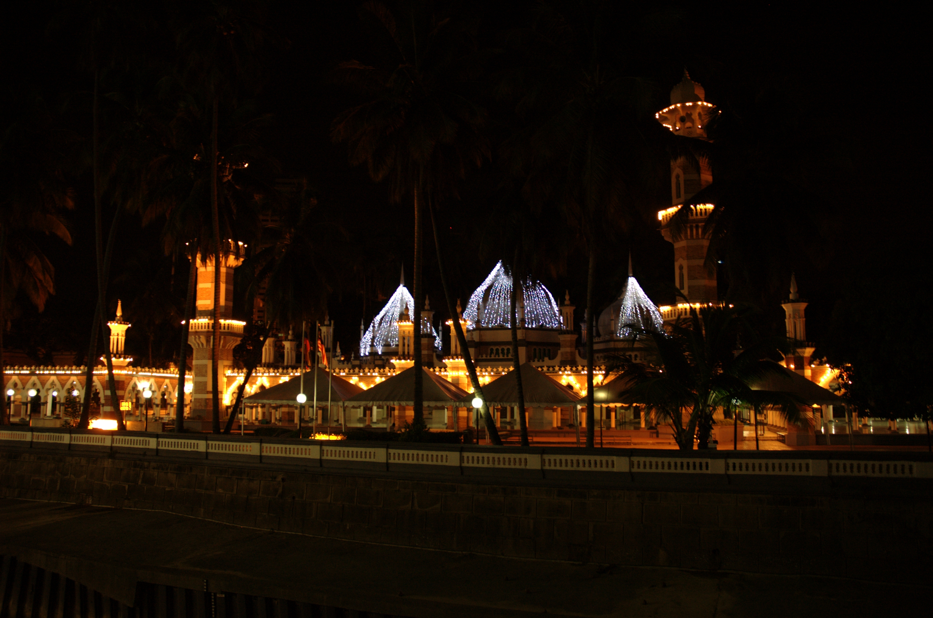 Masjid Jamek mosque in Kuala Lumpur